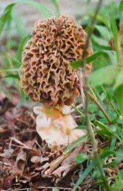 Morel Fungus